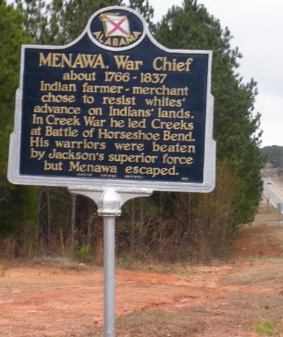 This is a historical marker noting the significance of Menawa, a Native American chief.